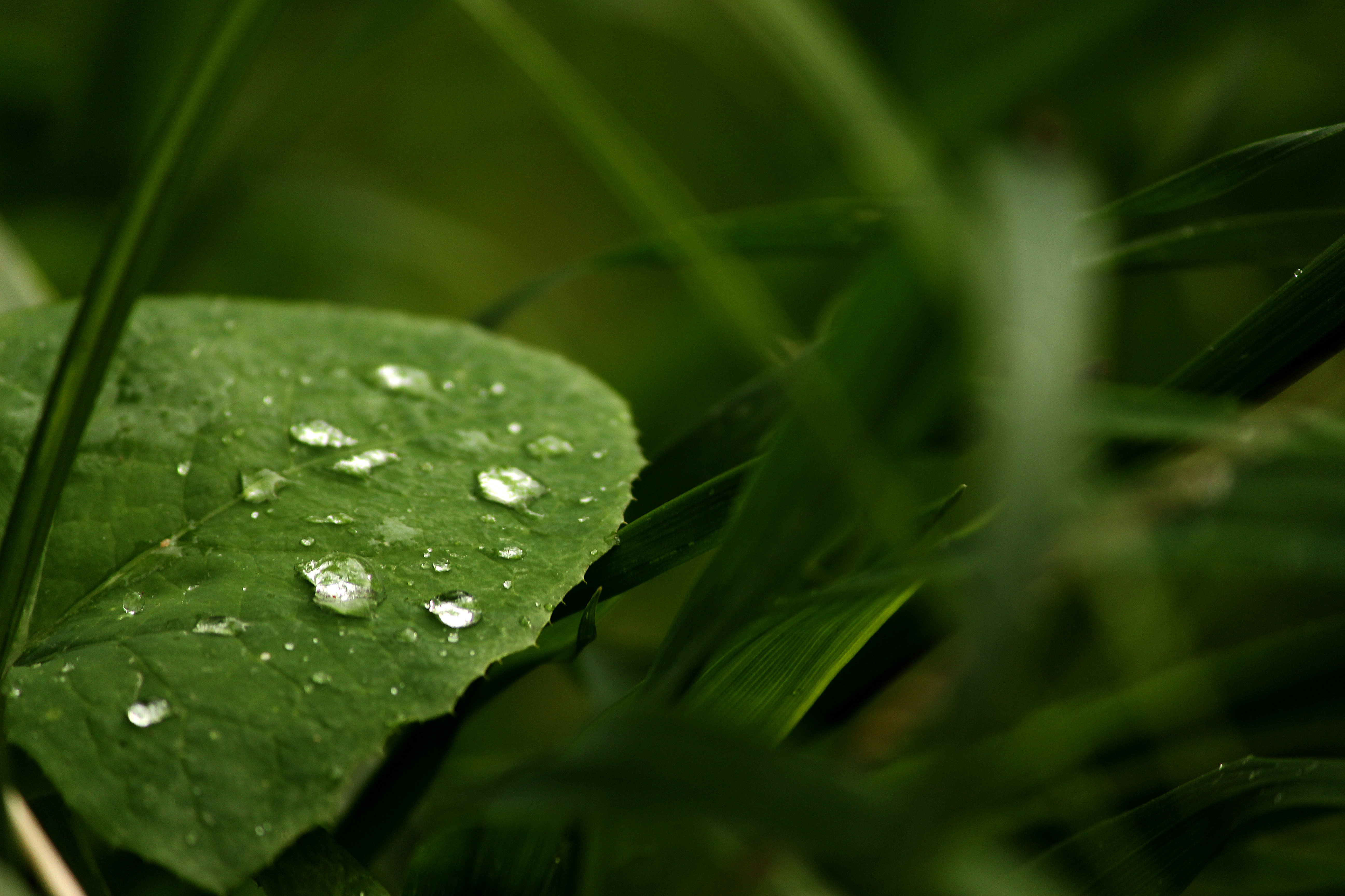 Rain drops on leaves.